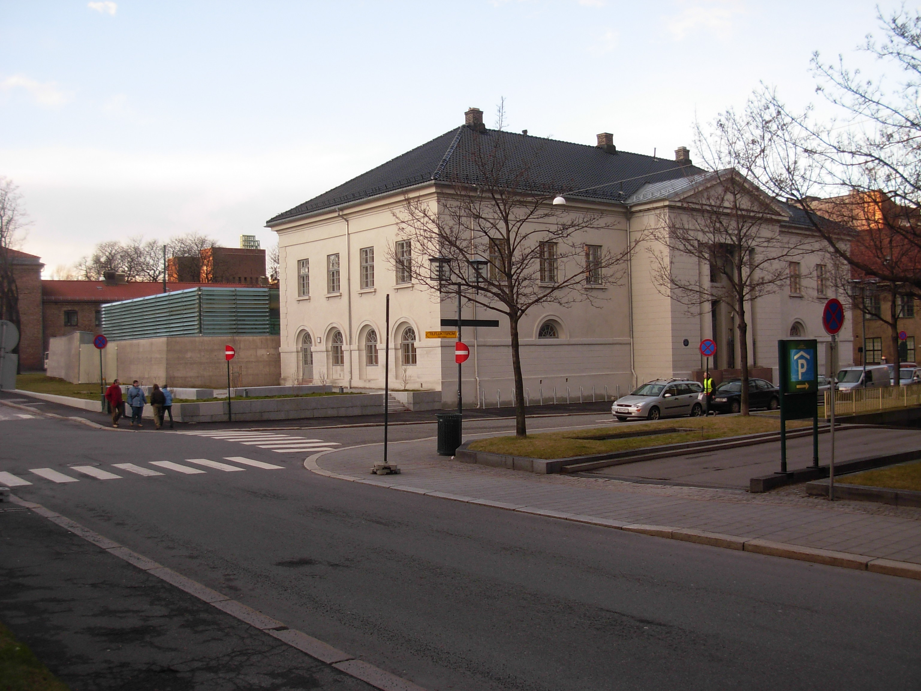 Museum of Architecture, Oslo